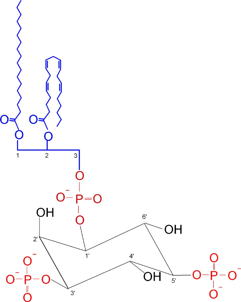 Chemical structure of sn-1-stearoyl-2-arachidonoyl phosphatidylinositol 3,5-bisphosphate. Created in ISIS Draw and Photoshop.